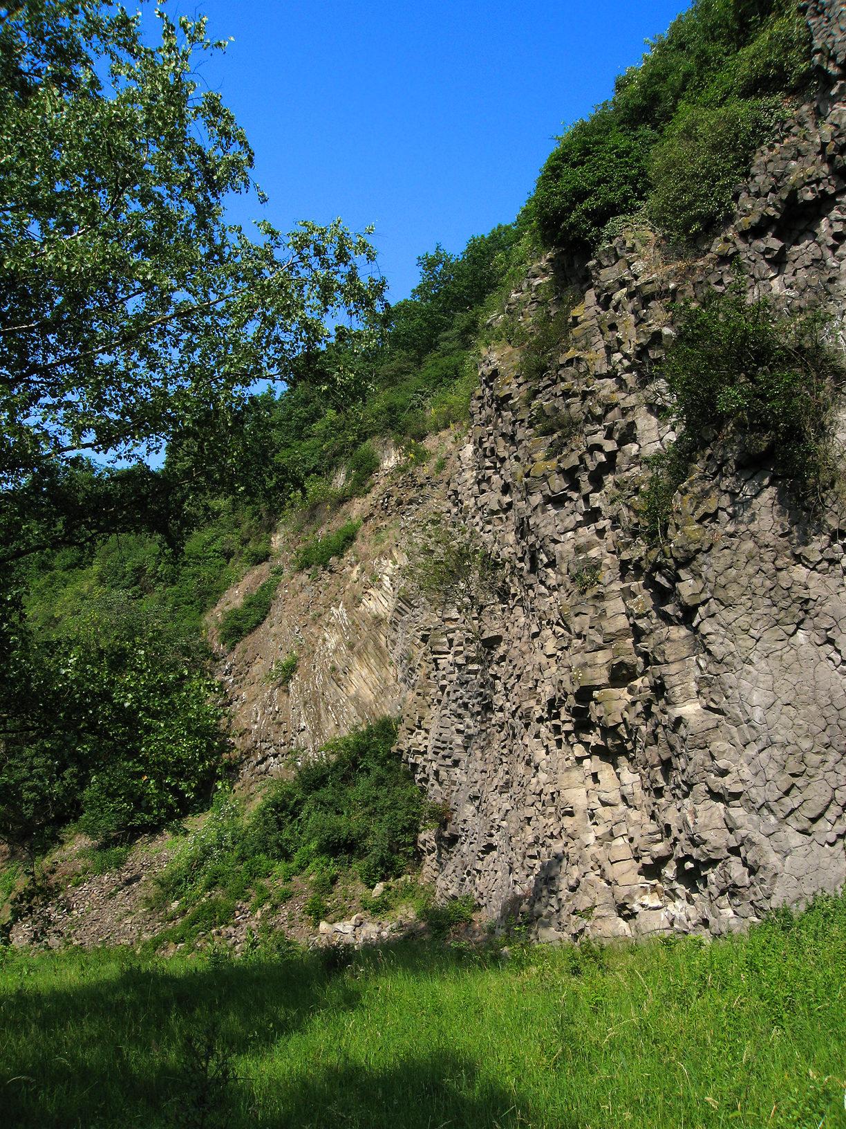 Columnar basaltic rock (basanite) exposed at Amöneburg hill, which is at the northwestern extremity of the Vogelsberg hills, Hesse, central Germany.